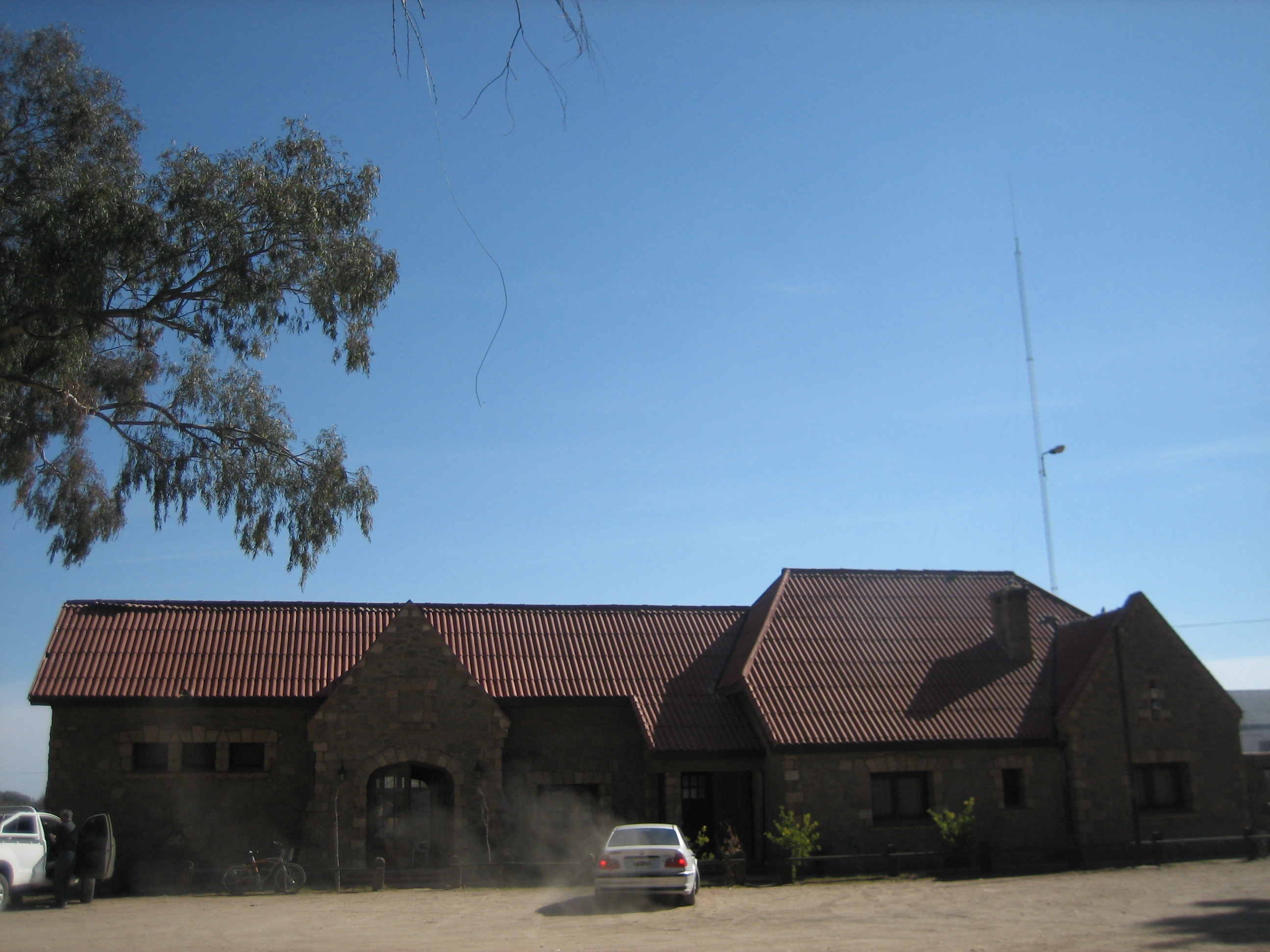 Una estación llamtiva pero en lamentable desuso